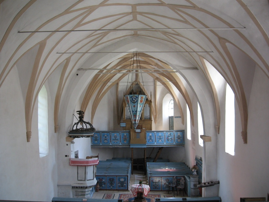 Covasna County, Aita Mare , Unitarian church, inside